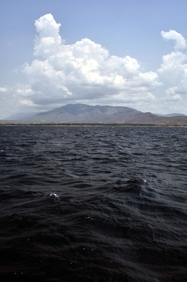 Cumulus on Mahale mountains (Tanzania).